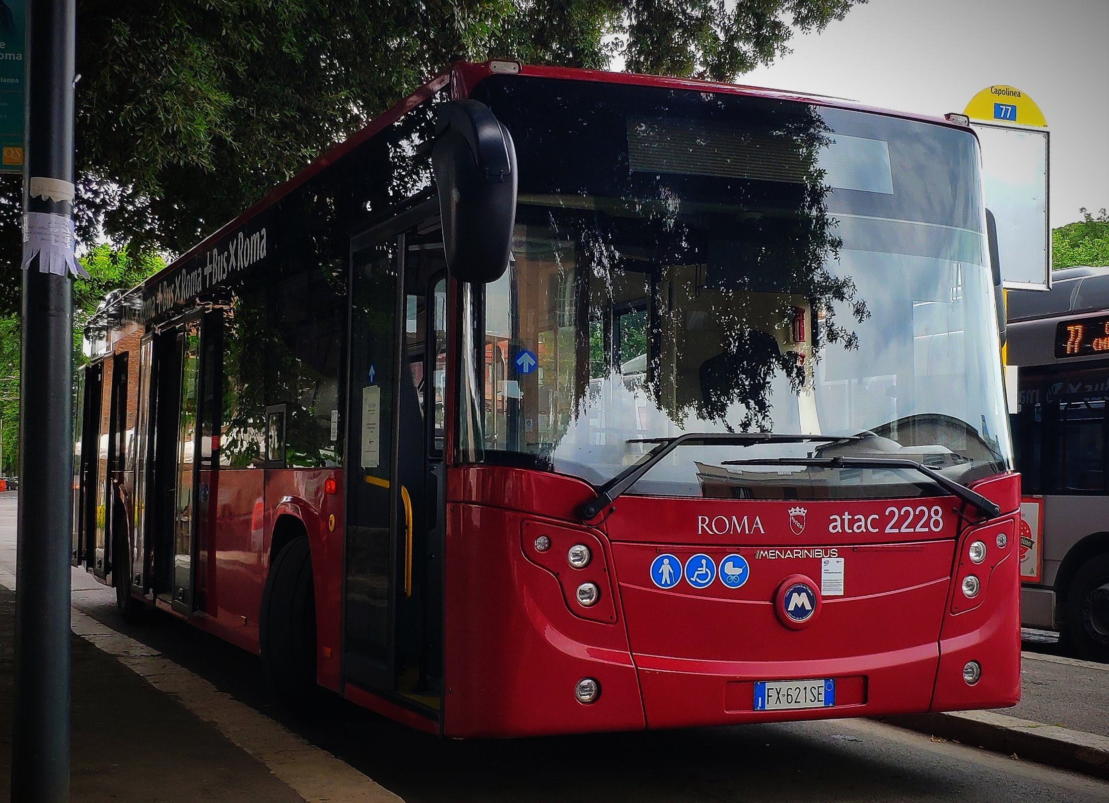 An ATAC Menarinibus Citymood 12 (number 2228) serving on line 775 in piazzale Ostiense, Rome.